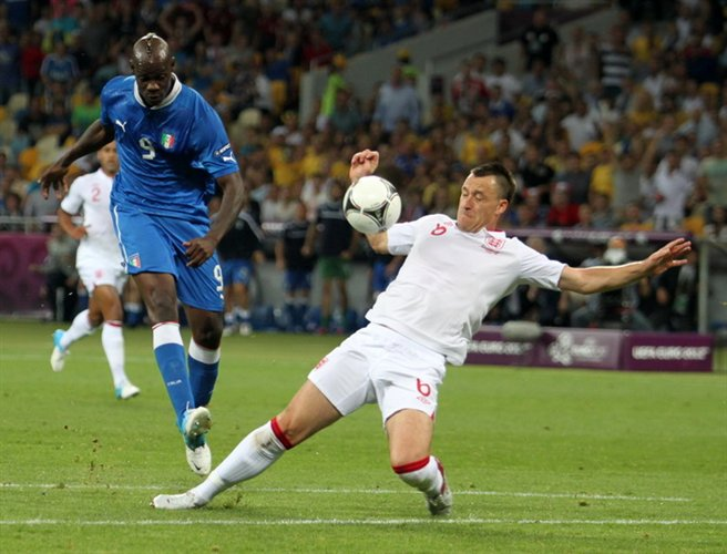 Mario Balotelli and John Terry at Euro 2012 match England-Italy